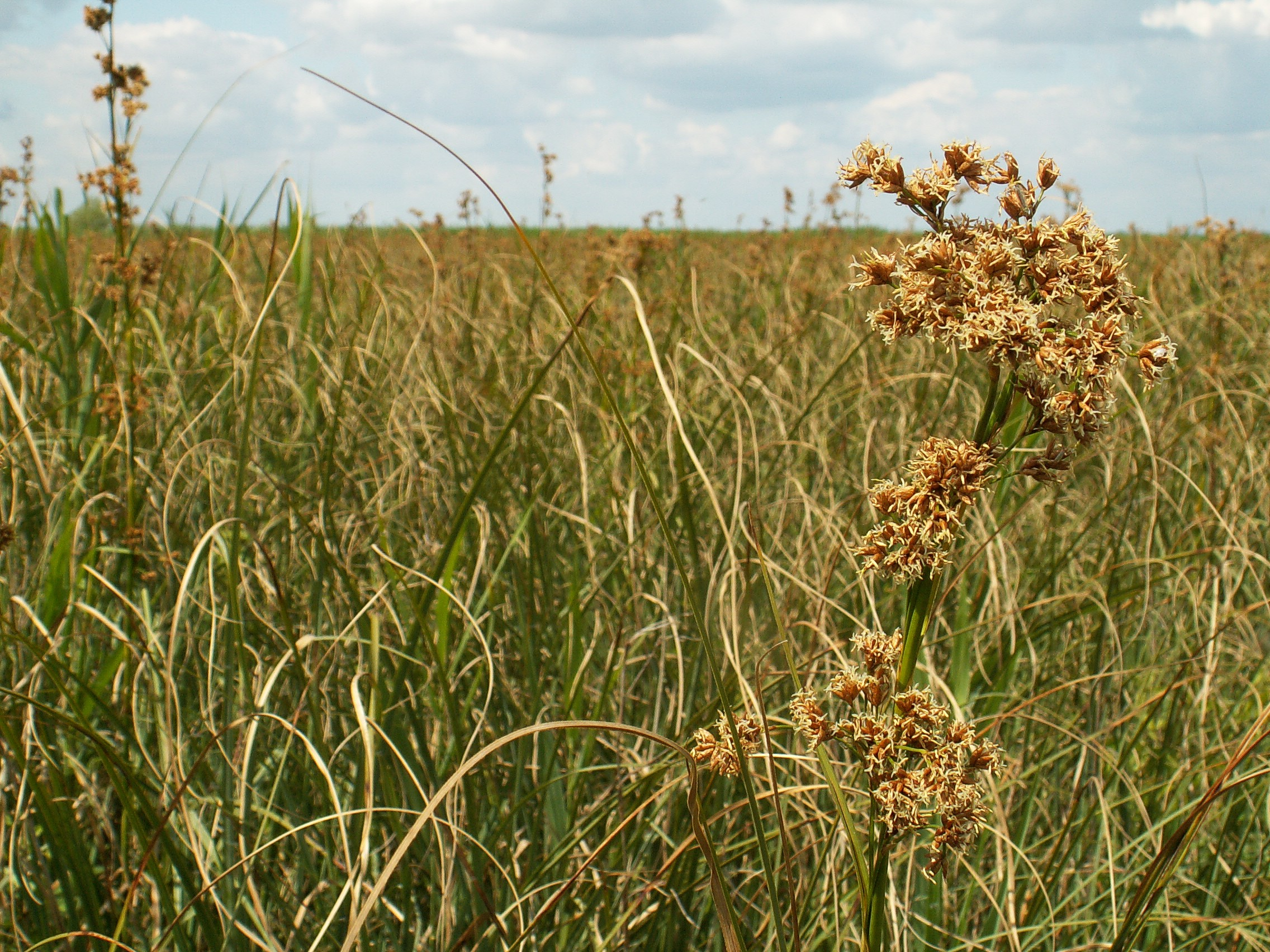 Cladium mariscus